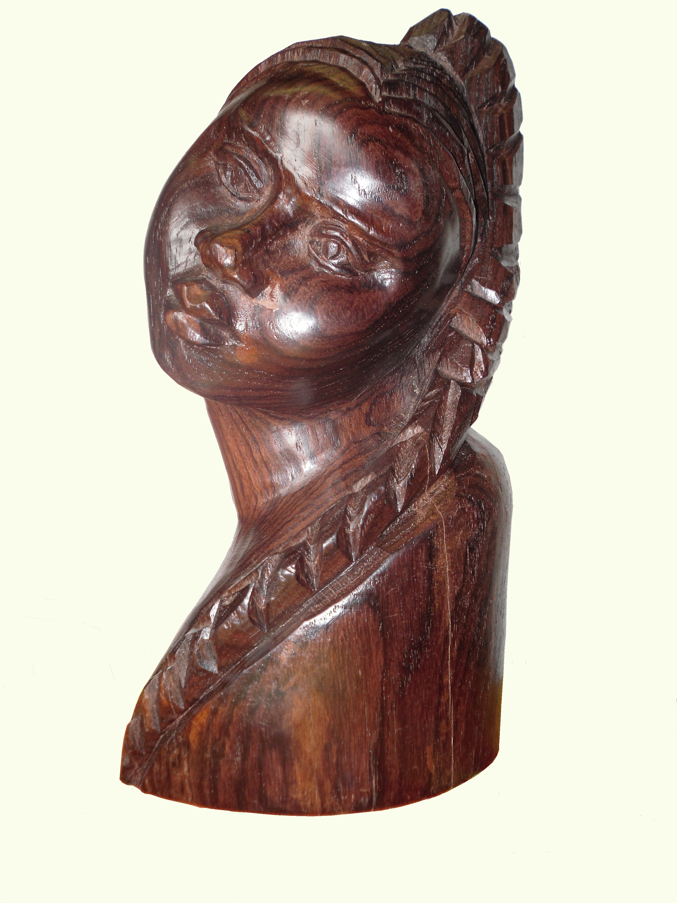 Betsimisaraka girl